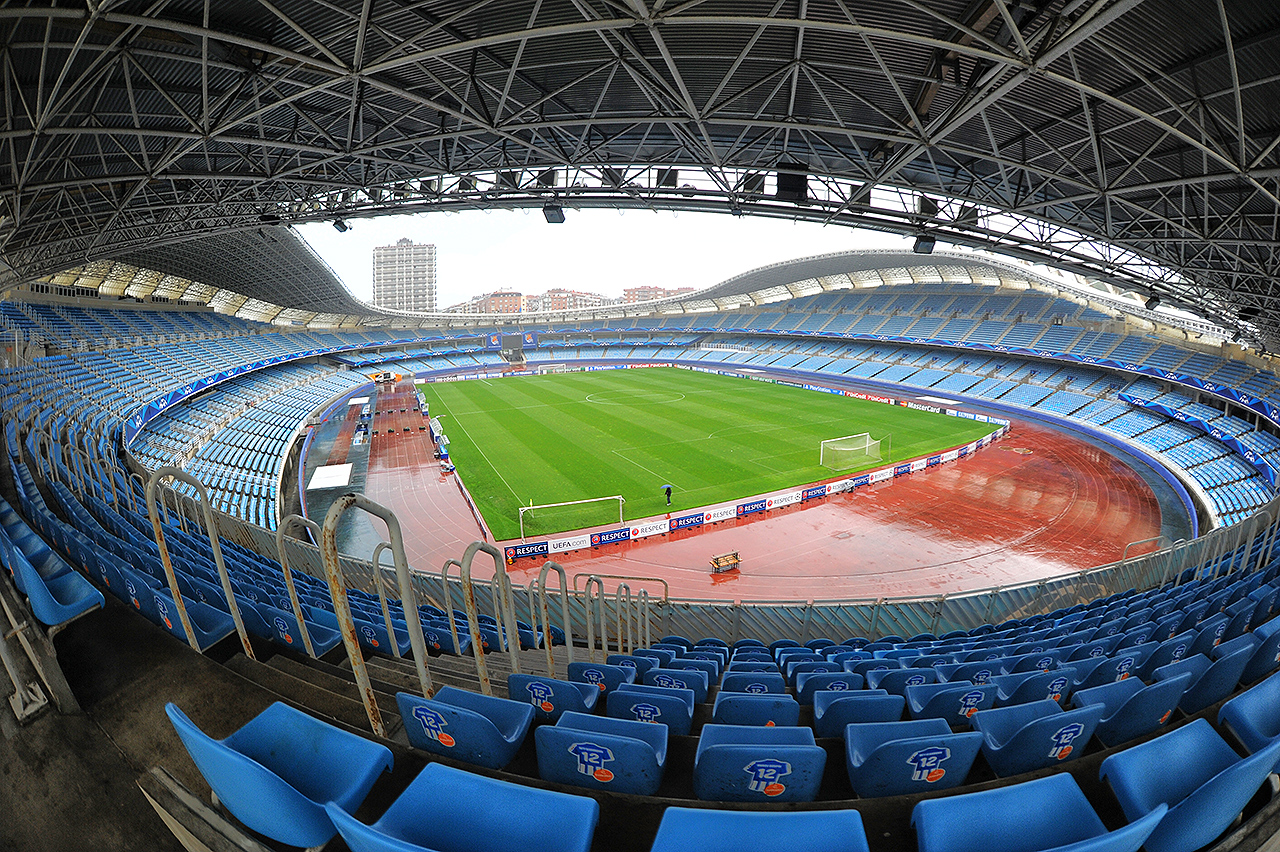 Anoeta Stadium in Donostia-San Sebastián, Basque Country, Spain